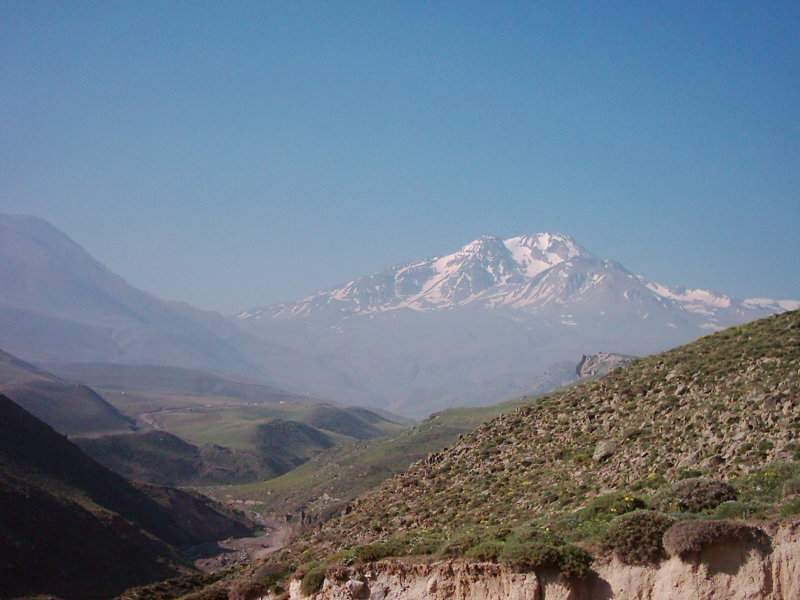 Sbalan Mountain, Summer 2002